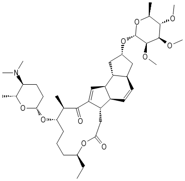 spinosyn A, component of insecticide spinosad